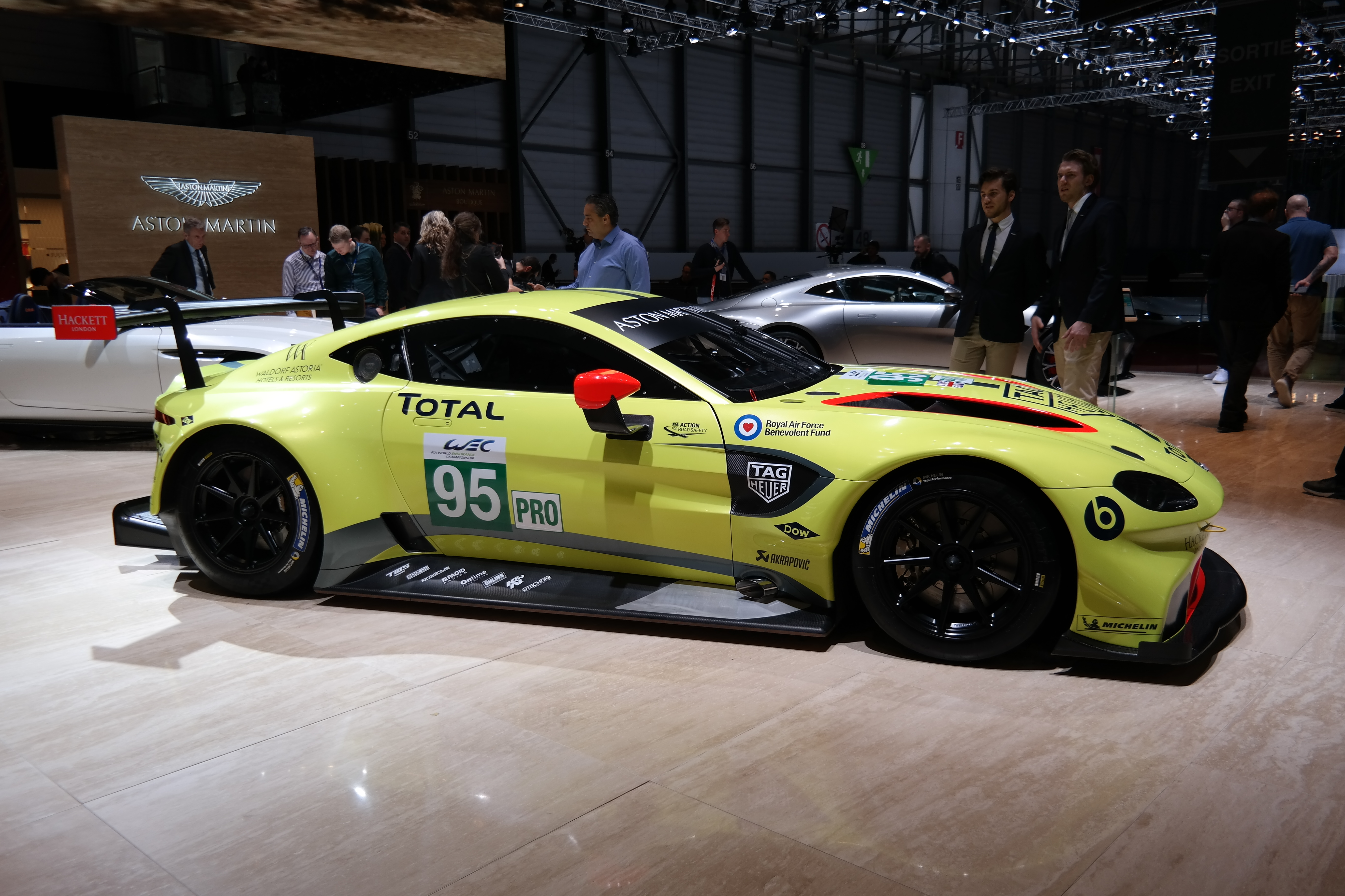 Geneva Motor Show 2018 (photo taken on the first press day)